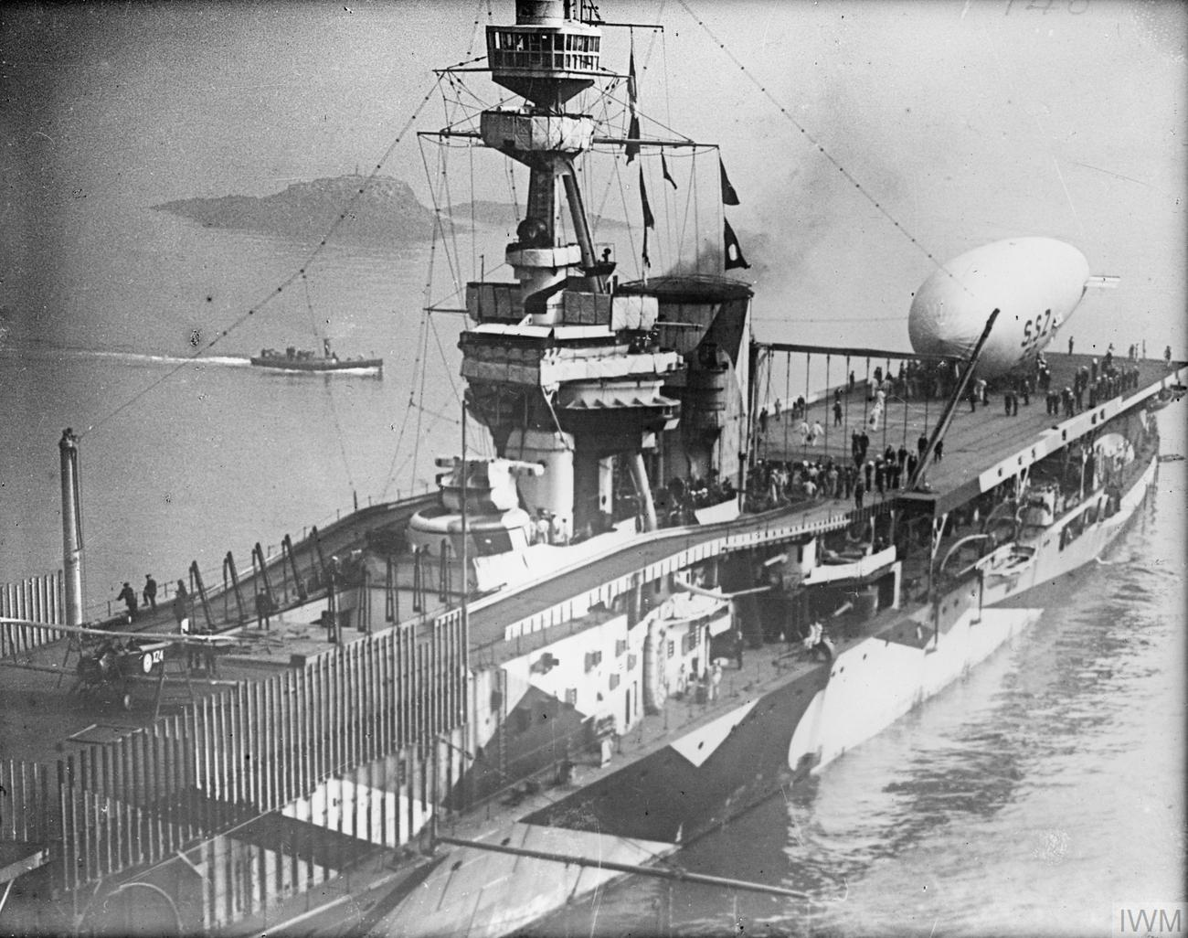 Photograph showing British aircraft carrier HMS Furious with naval airship (SSZ - Sea Scout Zero) on the after flight deck.